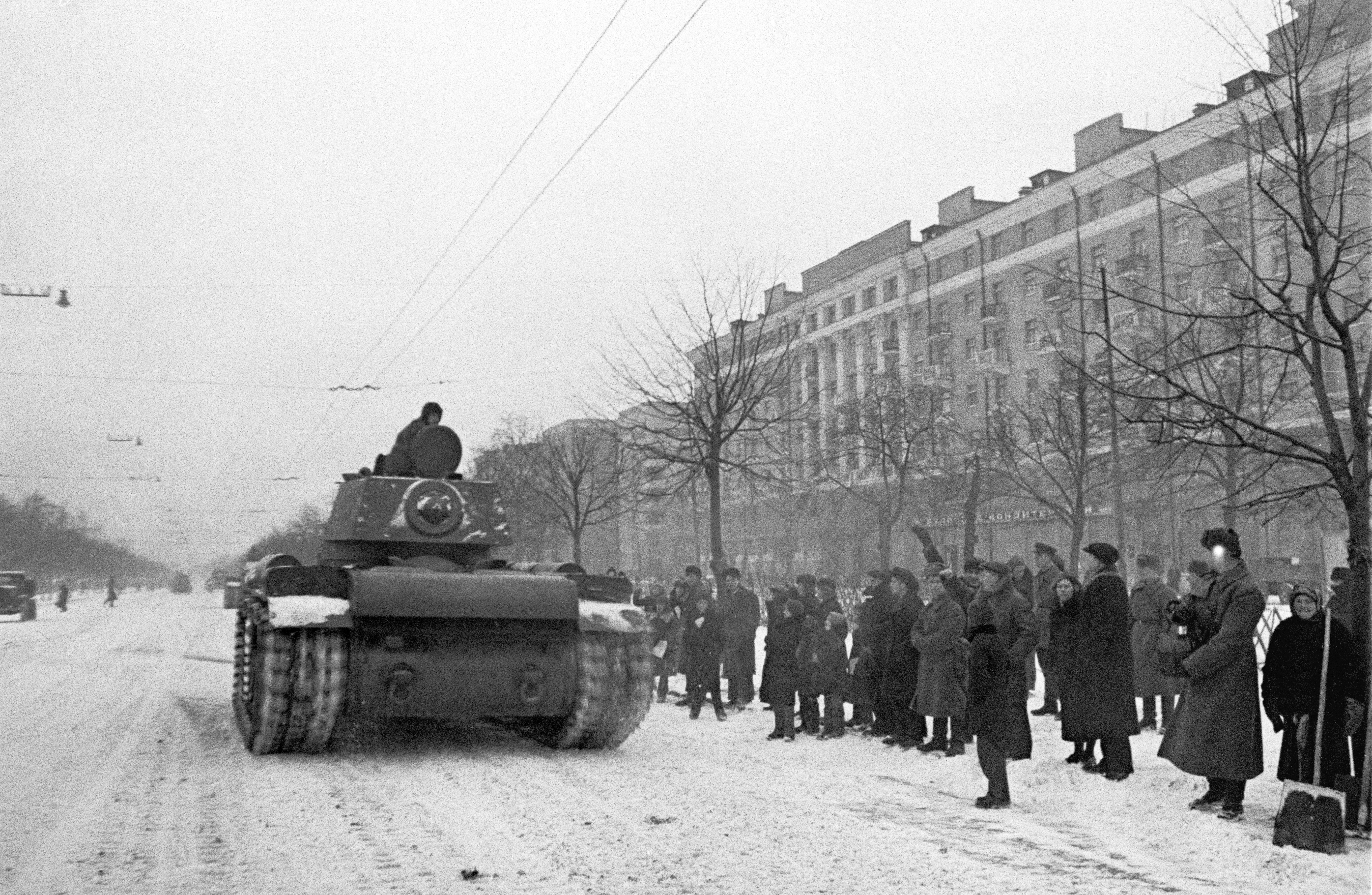 “Soviet troops head to front lines after 1941 Red Square parade”. Soviet troops heading straight to the front lines after the parade held on Moscow's Red Square on November 7, 1941.